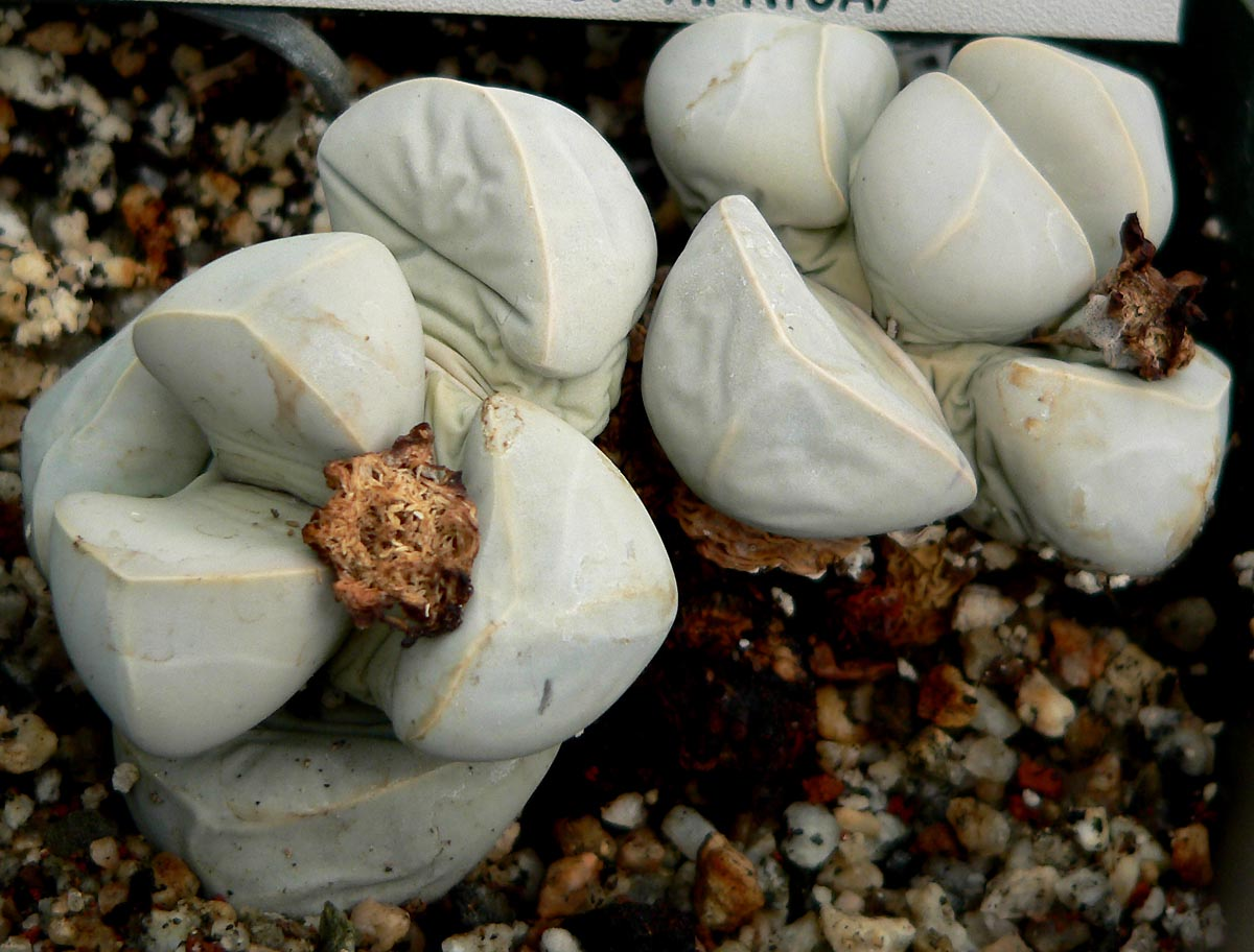 Photo of Lapidaria margaretae at the University of California Botanical Garden